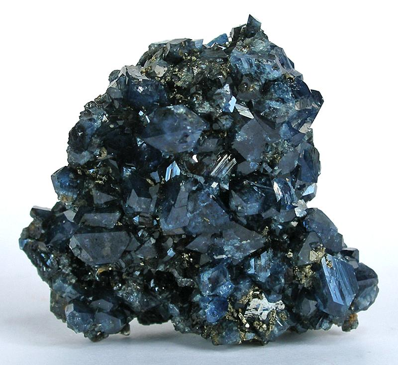 Scorodite Locality: Hezhou Prefecture, Guangxi Zhuang Autonomous Region, China (Locality at ) Size: miniature, 3.7 x 3.2 x 2.1 cm Scorodite Intense, sparkling, bright vivid blue crystals, sharp as can be, to 6 mm on edge - overall a very showy and colorful miniature!